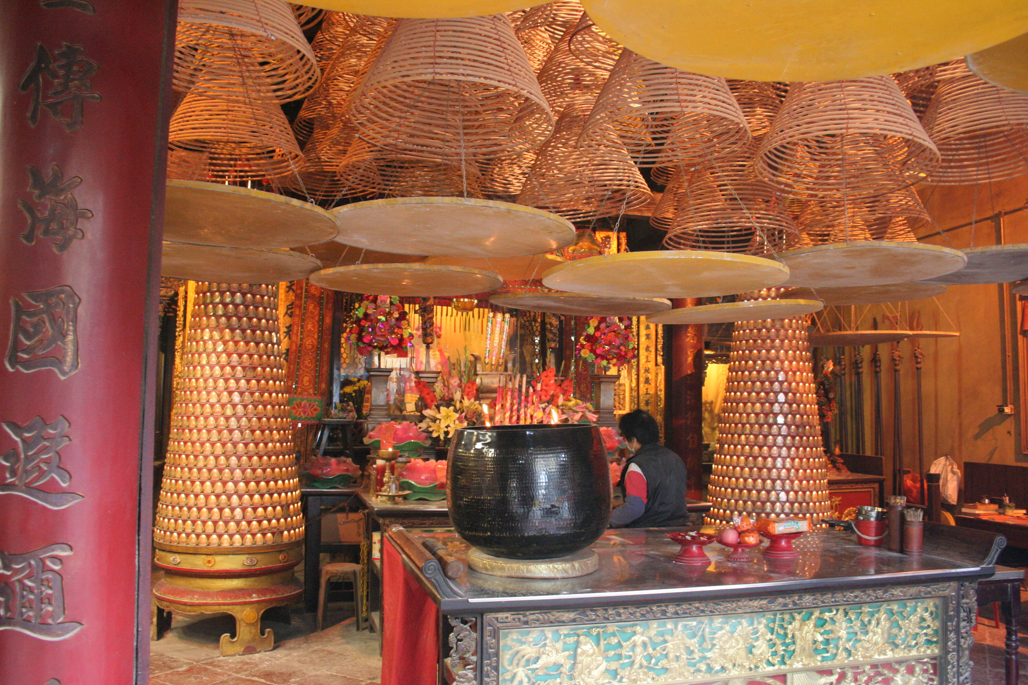 A-Ma Temple, Macau